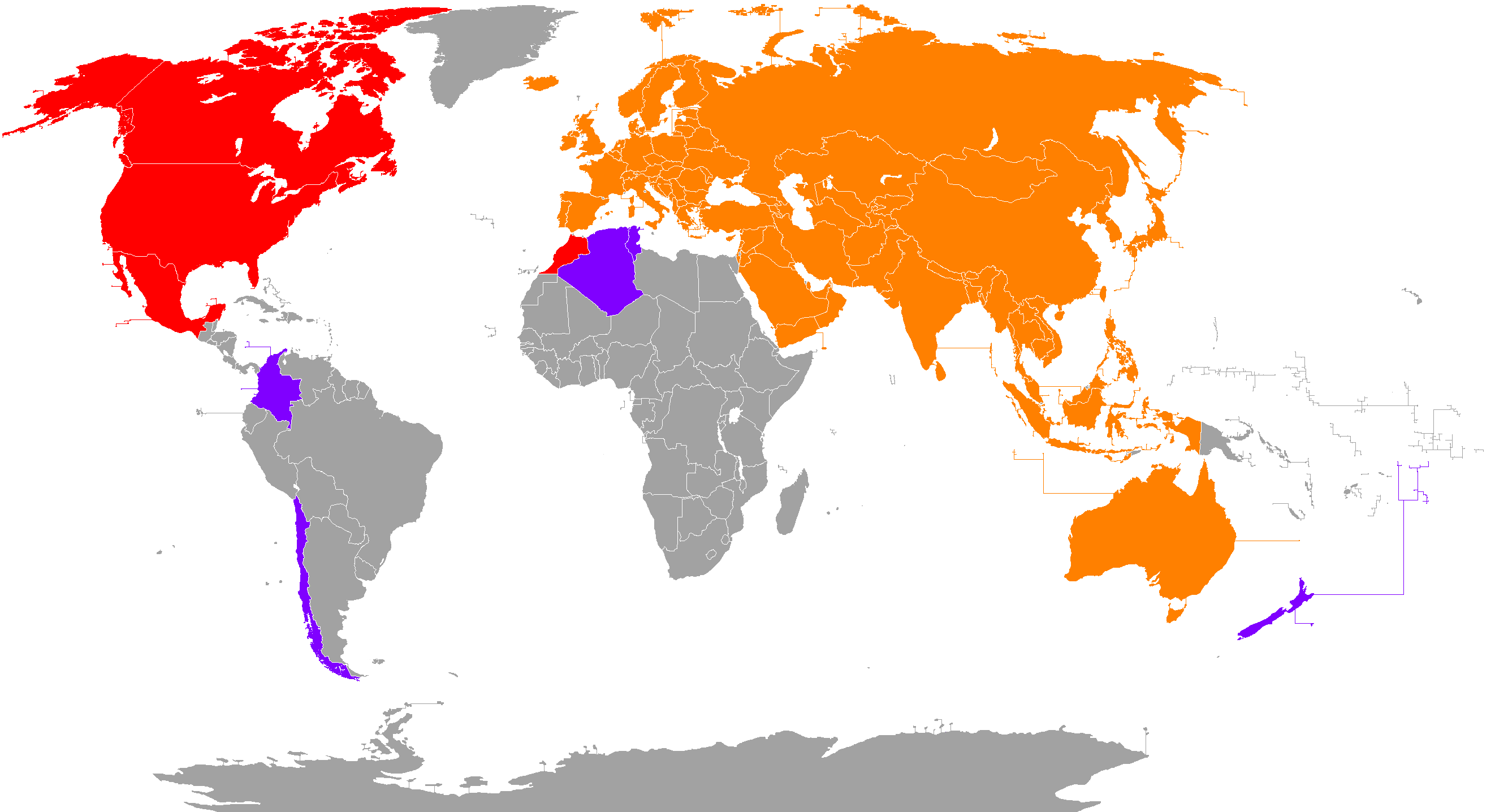 2026 FIFA World Cup Official bids and countries with confirmed interest in bidding but did not make the final list. Bid submitted for 2026 Canceled bid Ineligible in 2026